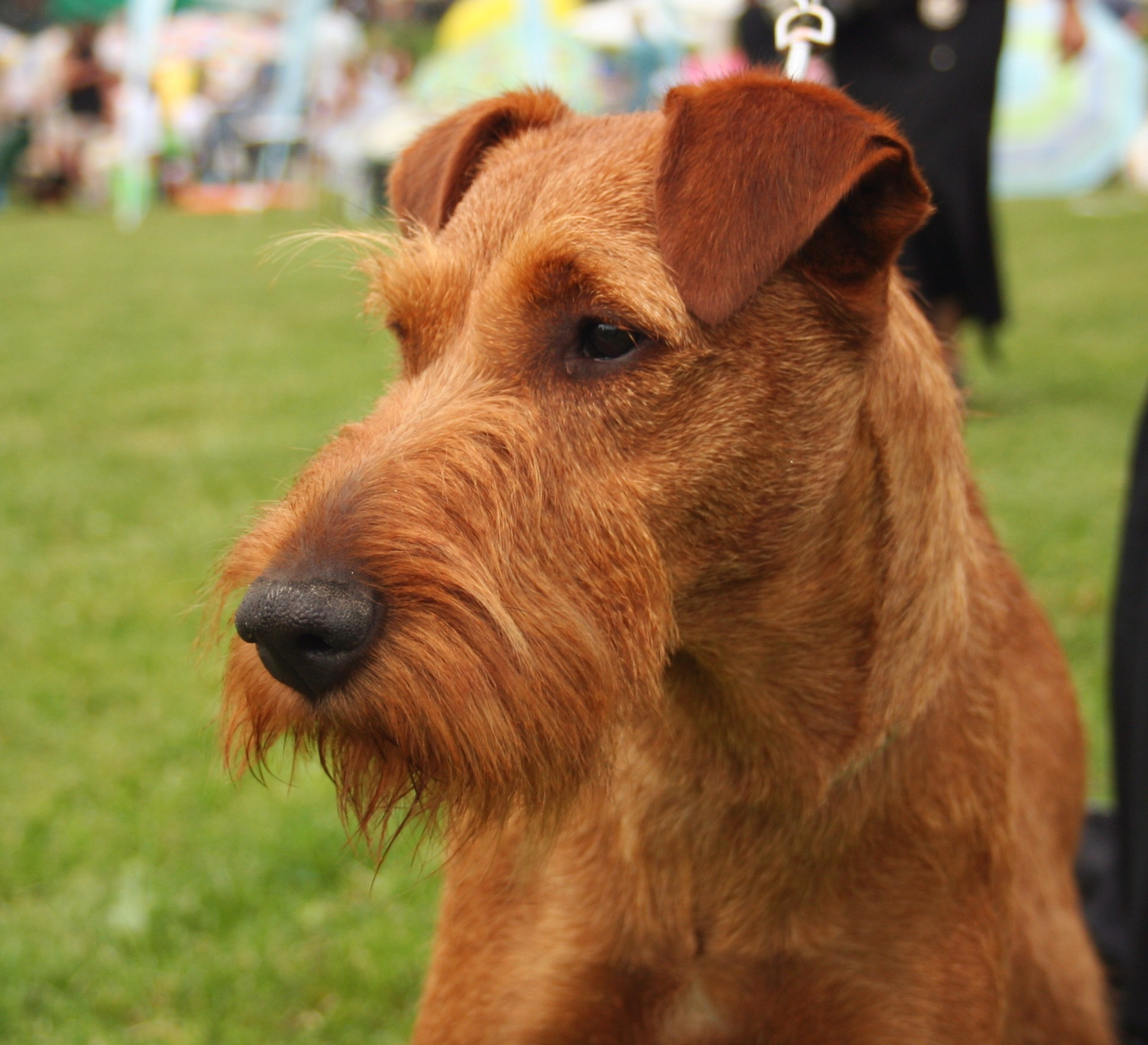 Irish Red Terrier during dog's show in Racibórz, Poland